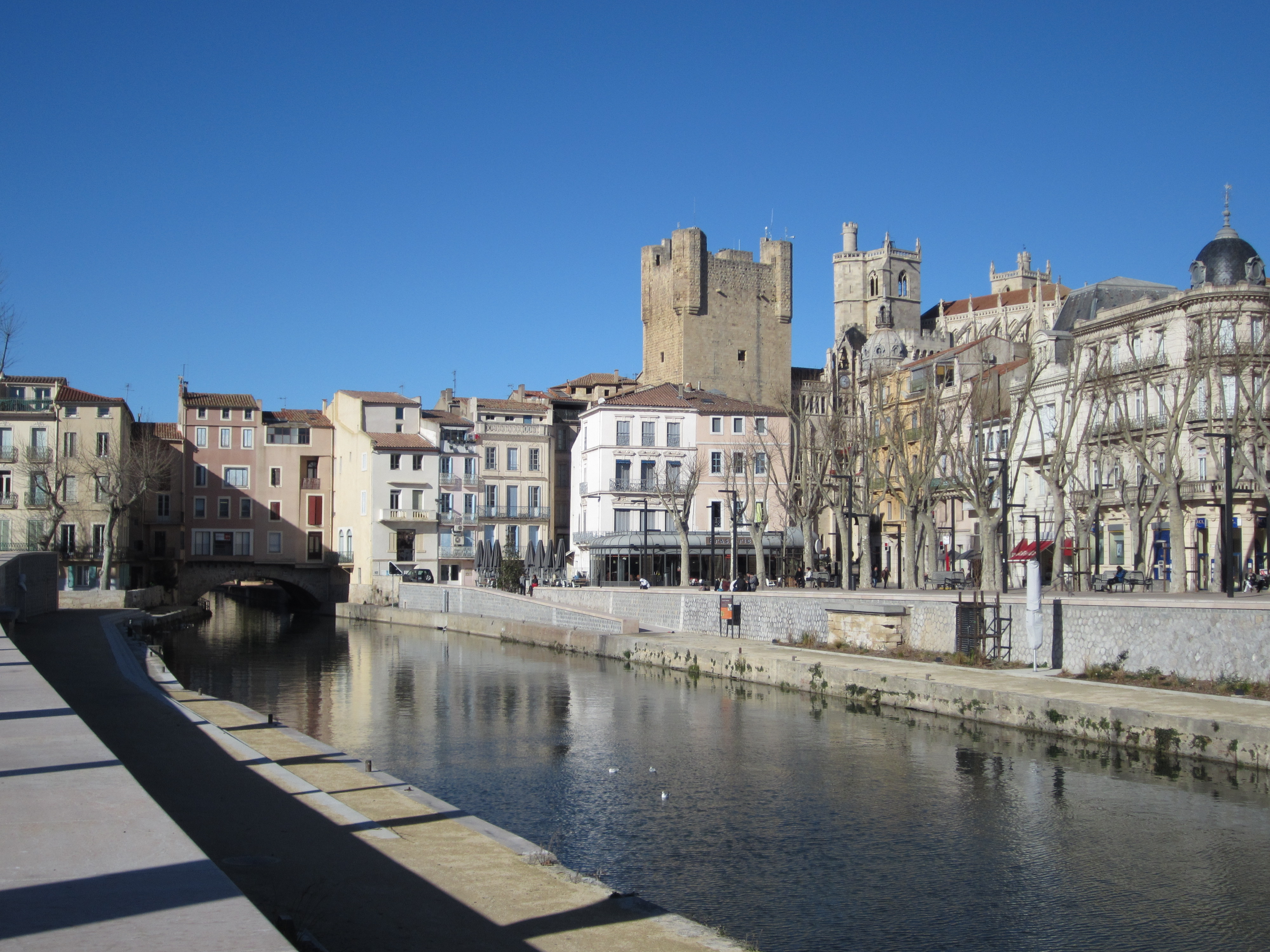 The Canal de La Robine in Narbonne, France. Showing the Merchants' Bridge (Pont des Marchands, Left on Canal)Town Hall (Hôtel de Ville, first tower from left), Barge Walkway (Promenade des Barques) and the St. Just and St. Pasteur Cathedral (next to Town Hall)